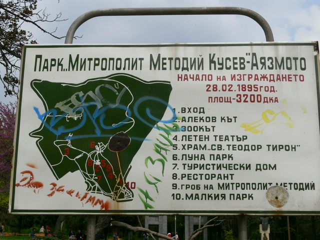 Metropolitan Metodi Kussev Park, also known as Ayazmoto Park, Stara Zagora, Bulgaria. The establishment of the park started on 28/02/1895.